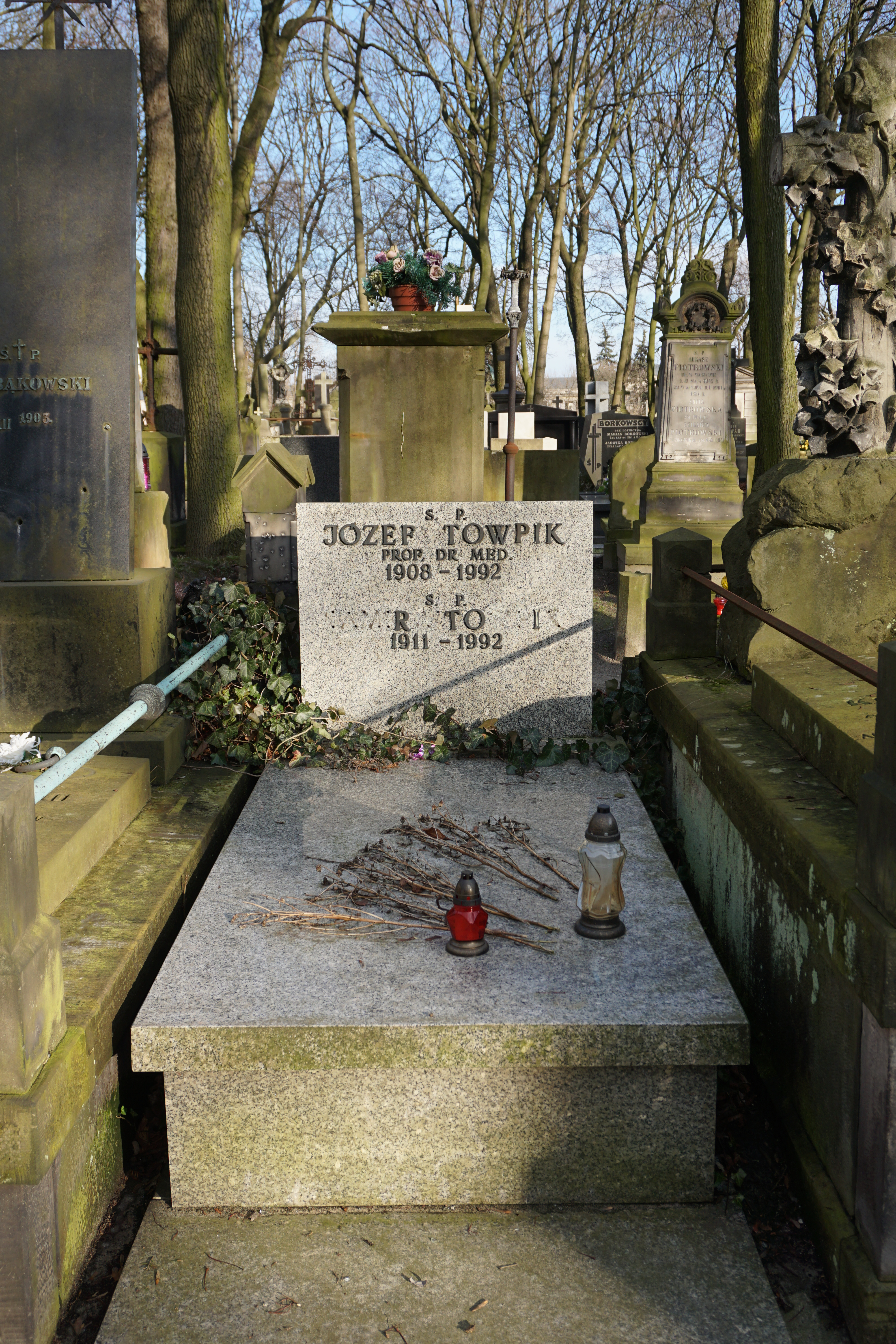 The grave of Józef Towpik at the Powązki Cemetery (section 164, row 6, grave 11)